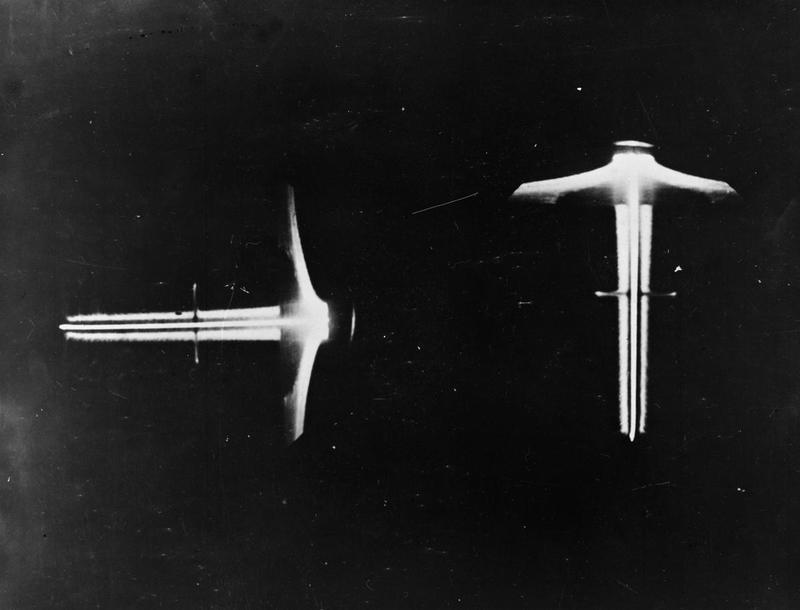 The AI Mk. IV radar used two CRTs (oscilloscopes) to display the vertical and horizontal situations. The altitude display on the left shows the vertical situation, while the azimuth display on the right shows the horizontal. This display shows a single "blip" about half way along the lines, indicating a range of about 10,000 feet from the aircraft. The blip is roughly centred across the axis of the vertical display, suggesting the target is at roughly the same altitude as the fighter. The blip is not directly centred on the horizontal axis, but slightly longer on the right, which means the target is to the right of the fighter. The "fuzzy" lines on either side of the centrelines on both displays are random noise, only targets with returns stronger than the noise can be seen. Across the top of both displays is a large triangular shape caused by ground returns. The broadcast from the Mk. IV covered the entire forward hemisphere of the aircraft, so the signal struck the ground at some point. Directly under the aircraft was the closest point, which causes the long return at the base of the triangle. The reflections from points further in front of the aircraft reflect back less energy, both because they are further away as well as the signal increasingly being reflected forward, away from the aircraft. This causes the rapid reduction in signal strength at the top of the triangle. The base of the triangle is at a range equal to the altitude of the aircraft, which limited the useful range of the display. The display often shows a similar shape at the other end of the displays, the "bleed through" from the transmitter. This could be suppressed with a bias control, and has been almost entirely removed on this display. It is just visible on the far left of the vertical display.